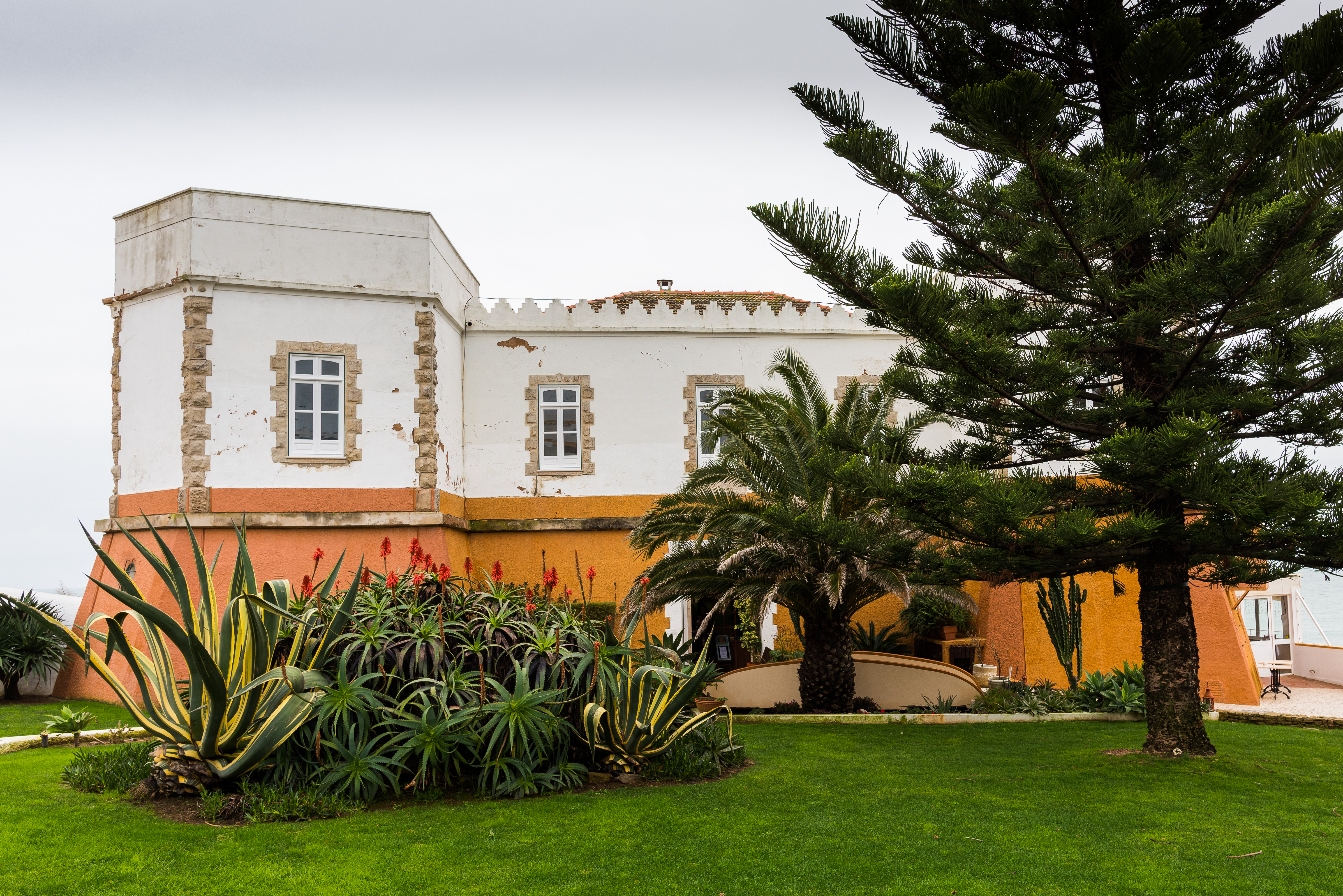 Praia da Luz Portugal February 2915